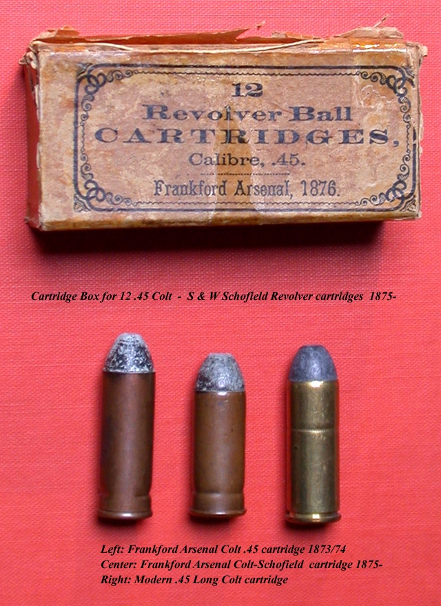 Two martial and one civil cartridge .45 LC